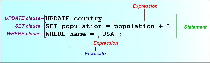 This chart represents several constituent components of the SQL language in a single SQL Update (SQL) statement